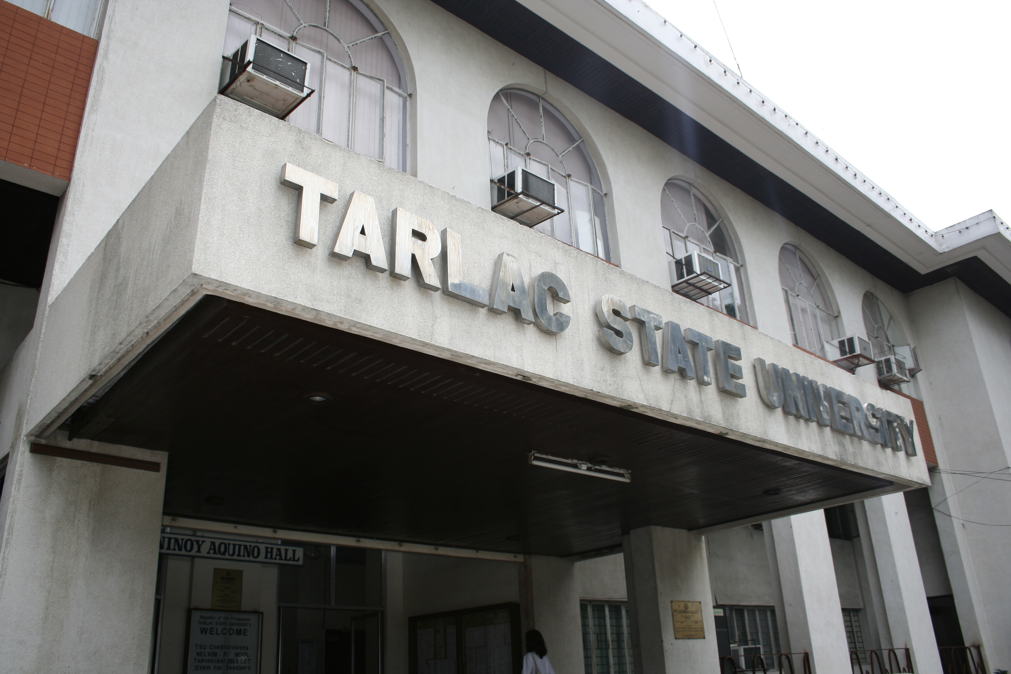 Tarlac State University Building in Main Campus.